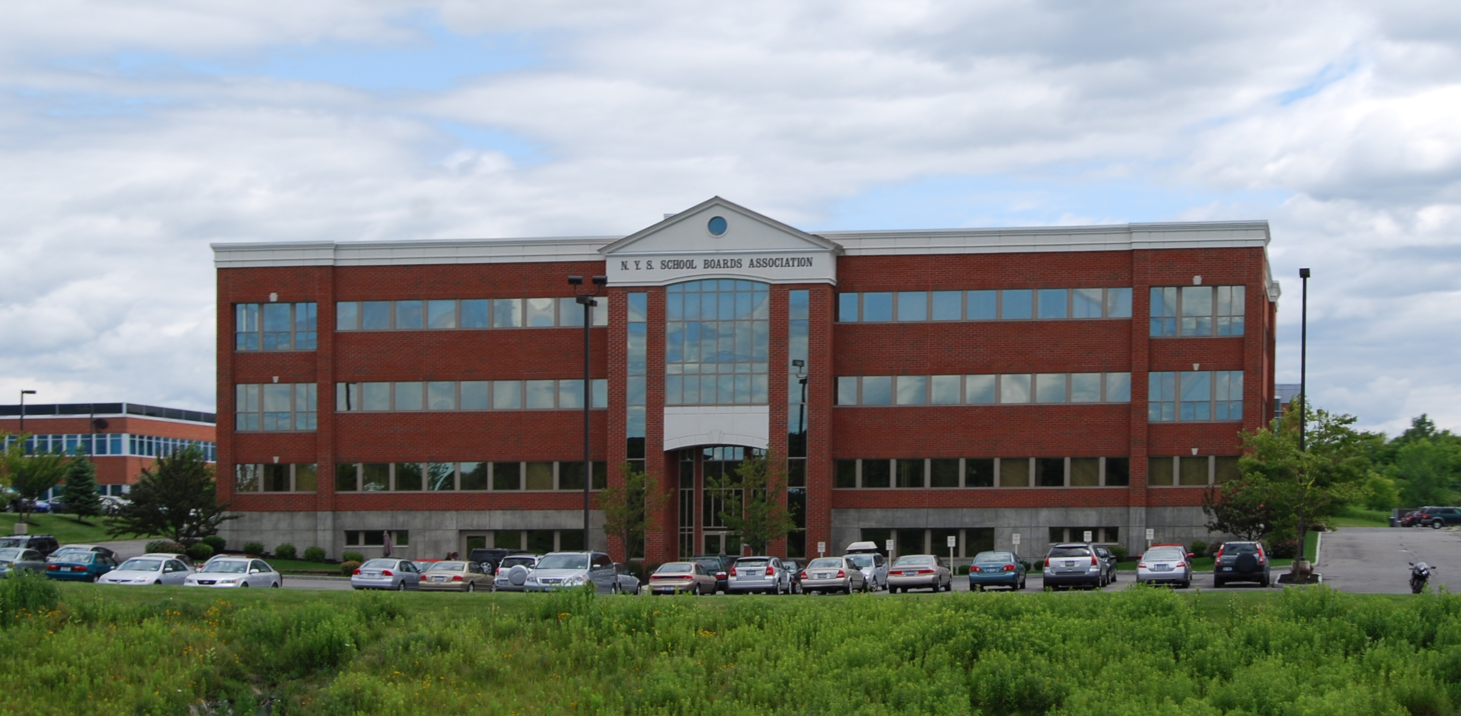 Headquarters of the New York State School Boards Association, located in Latham, New York, United States